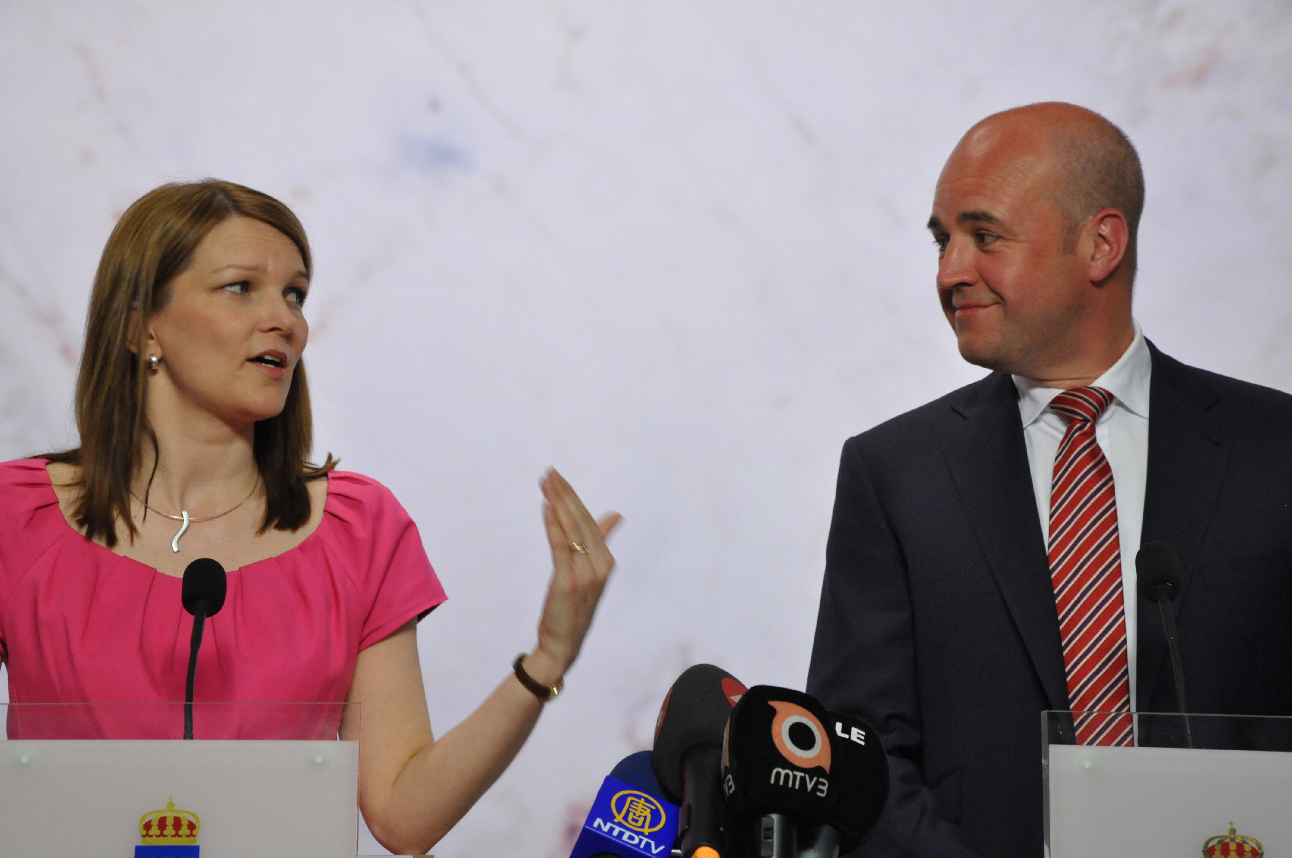 Mari Kiviniemi on her first official visit as prime minsiter, to Sweden and Fredrik Reinfeldt